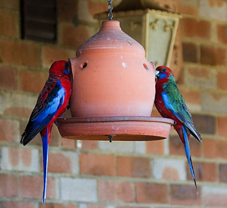 By author (mfunnell) 13OCT2005; North Lyneham, ACT, Australia. Adult & juvenile (more green) Crimson Rosellas.